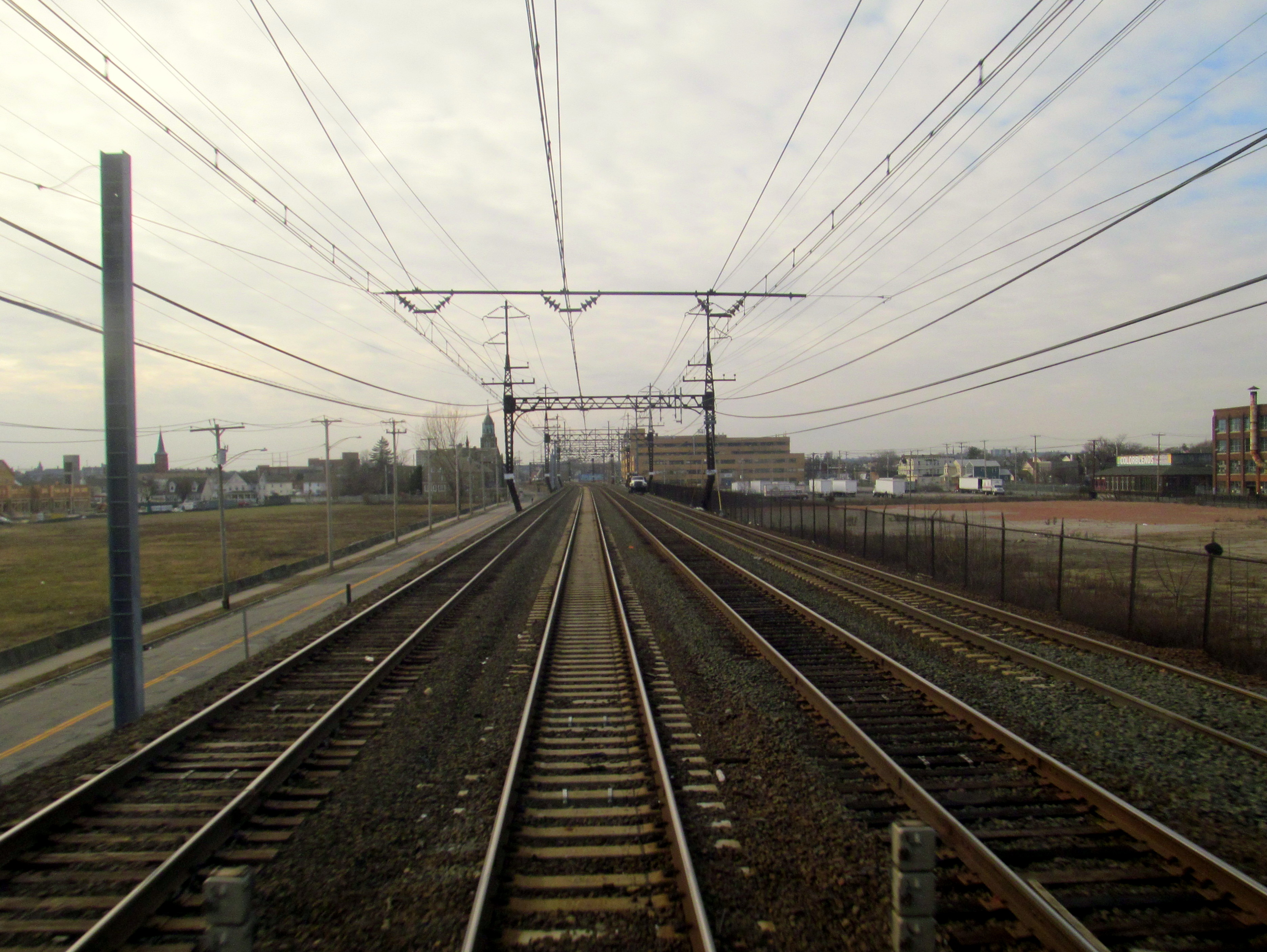 Site of the proposed Barnum station viewed from the rear window of an Amtrak train in January 2016